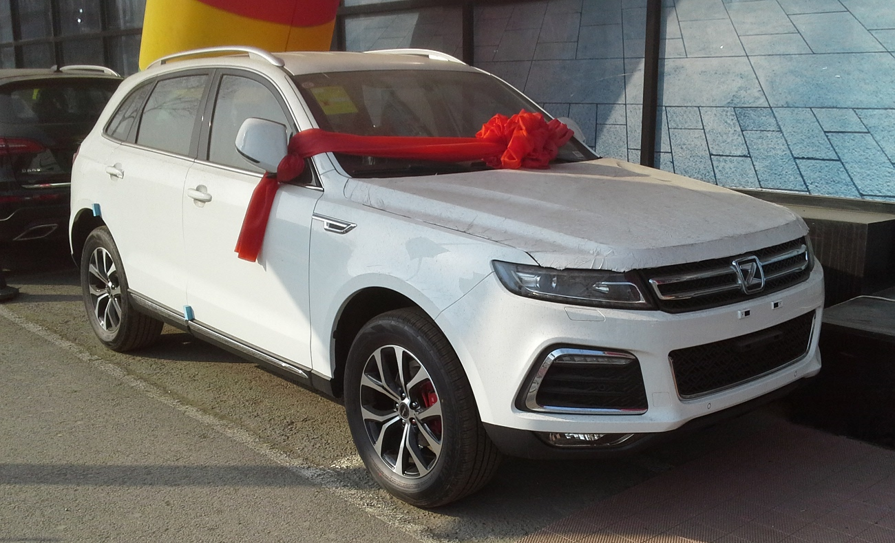 Zotye T600 Sport photographed in Shenyang, Liaoning province, China.